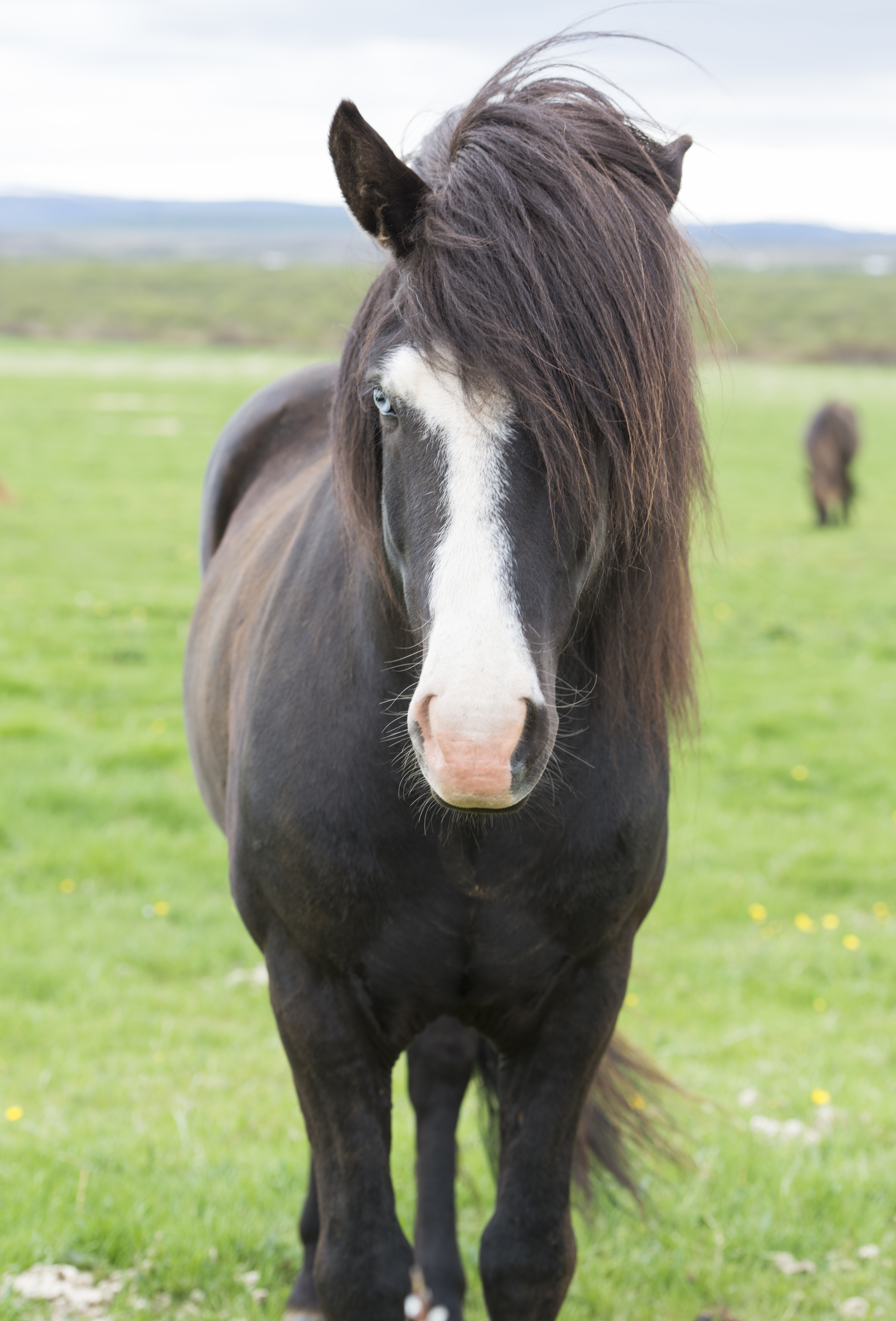 Icelandic Horse with blue eyes